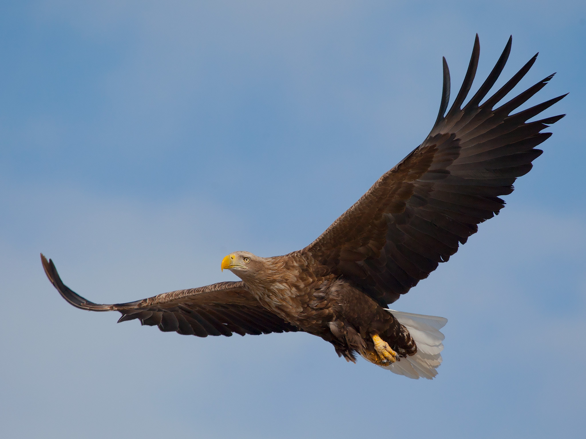 White-tailed Eagle,Haliaeetus albicilla,Hokkaido,Japan